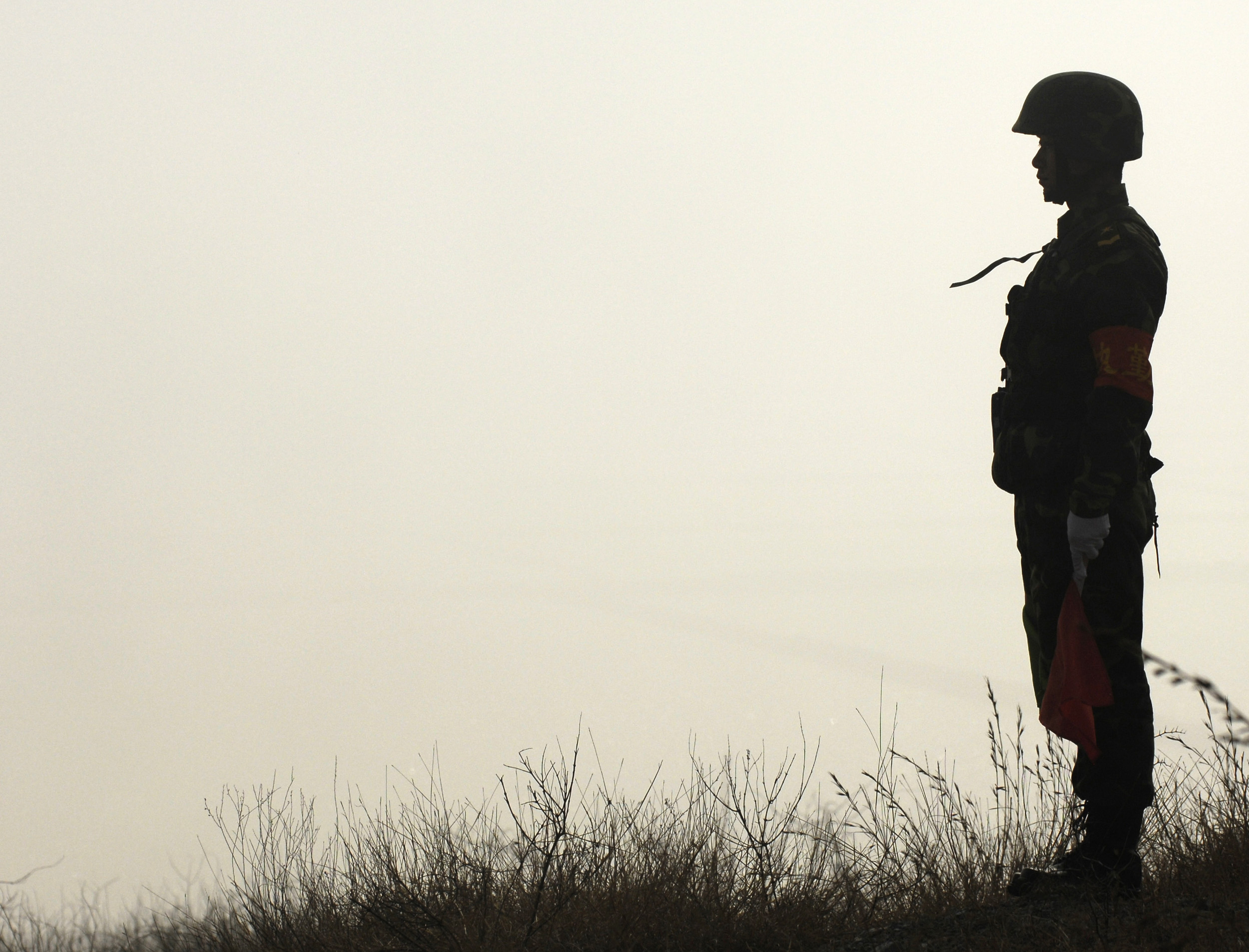 A Chinese soldier with the People's Liberation Army waits to assist with American and Chinese delegation's traffic at Shenyang training base, China, March 24, 2007. Defense Dept. photo by U.S. Air Force Staff Sgt. D. Myles Cullen